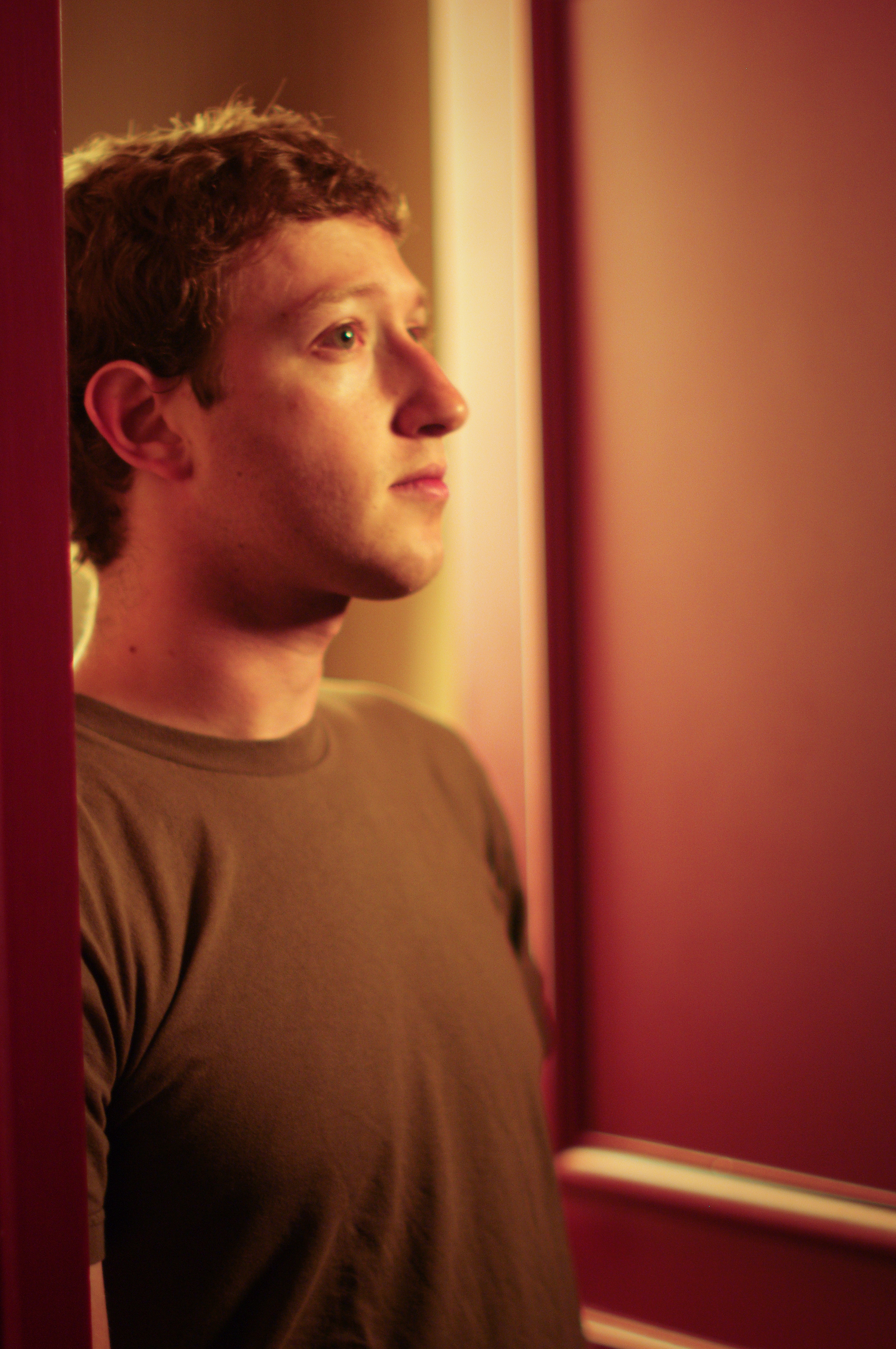 Mark Zuckerberg, Facebook founder and CEO, during his European Tour.